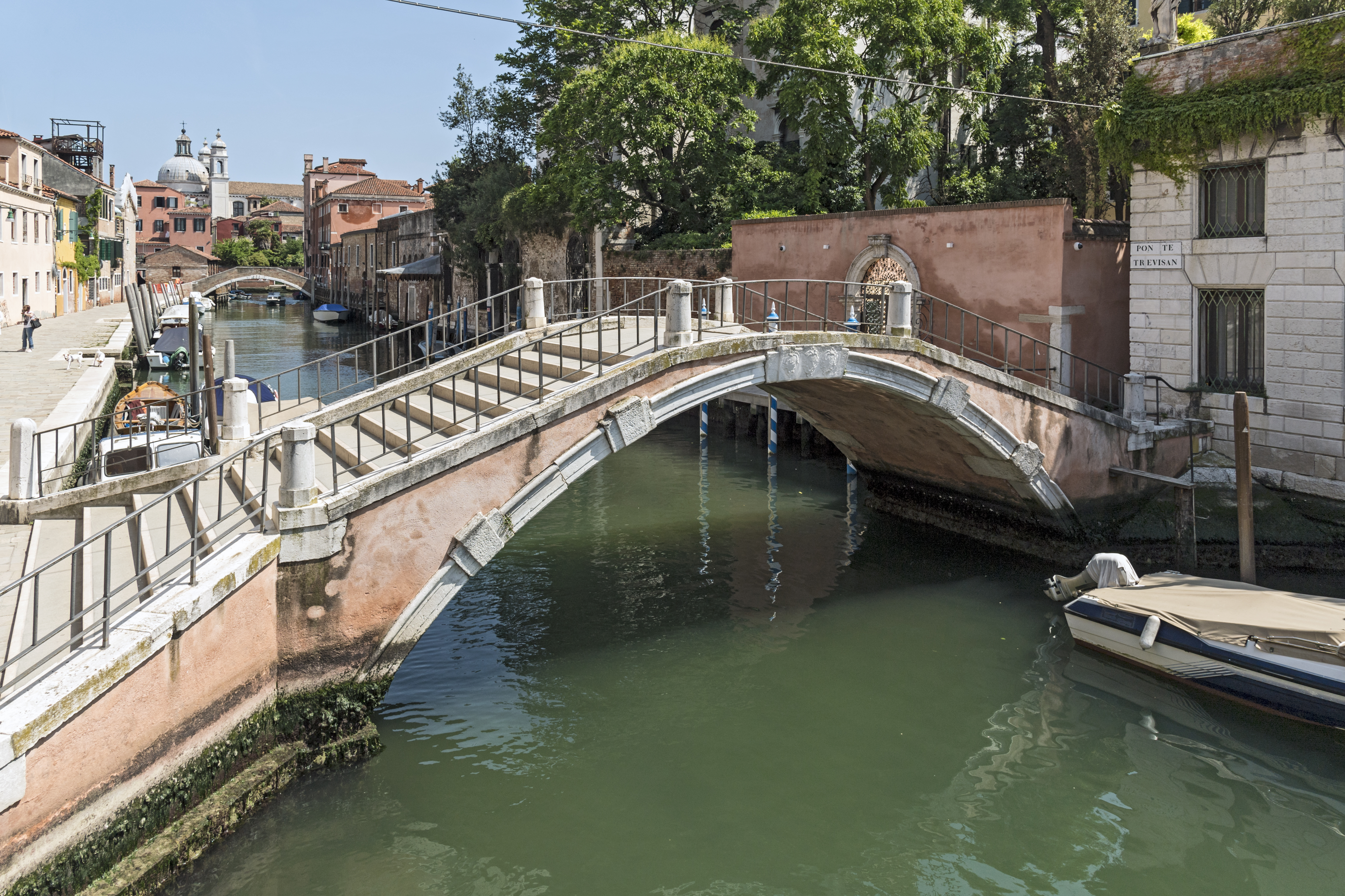 Ponte Trevisan on Rio degli Ognissanti in Venice. North West exposure.